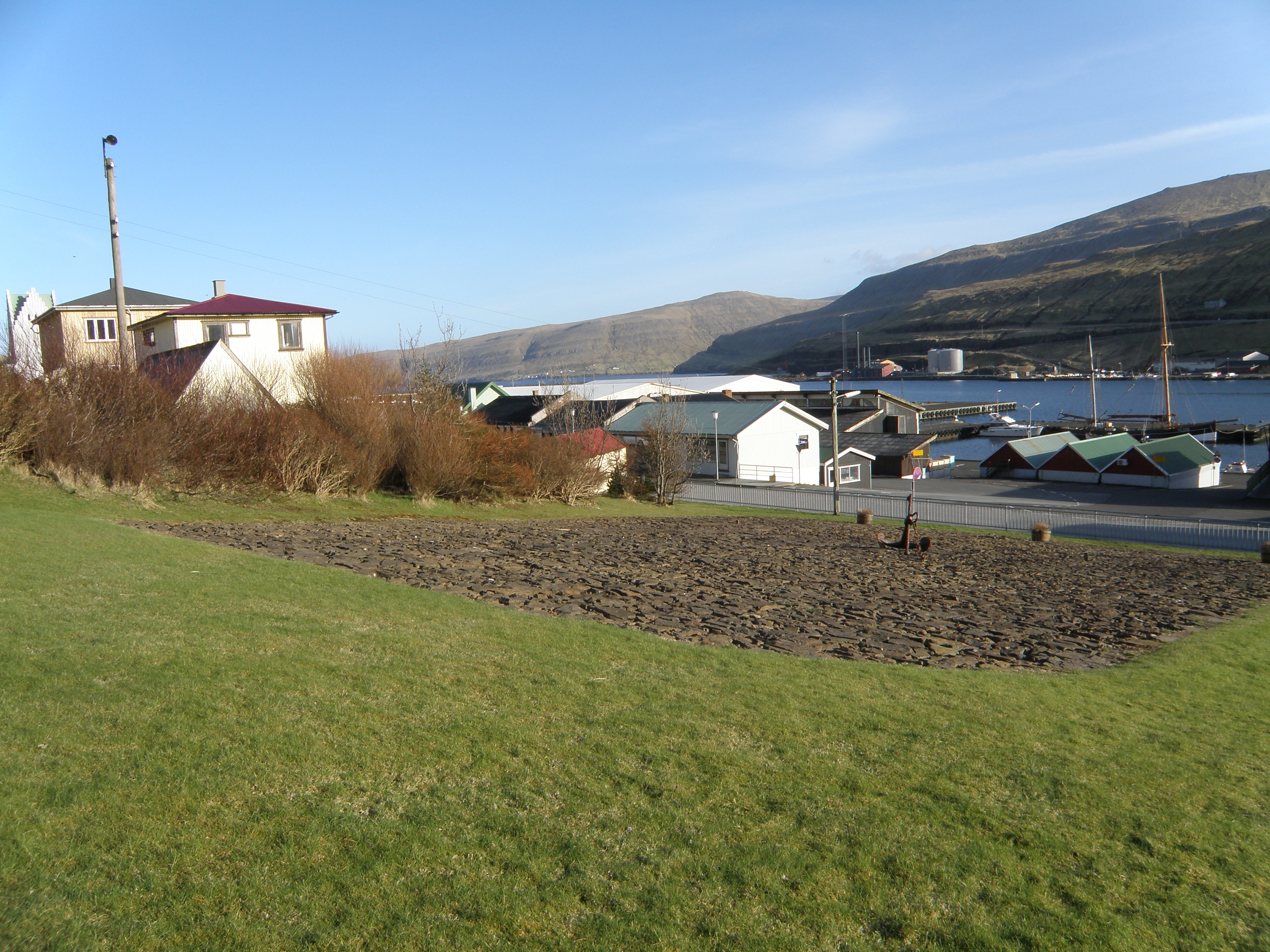 Memorial Park in Vágur, Faroe Islands. View towards south the main street and the harbour Vágs Havn. The street is called Vágsvegur. This is a public park, where various events are held during the year, i.e. the opening ceremony of the Jóansøka festival is held here, the Fareoese flagday on 25 April is celabrated here, the 12 March Grækarismessa, which is a celebration of the return of the national Faroes bird Tjaldur (Oyster Catcher) is also held here. In the beginning of November at All Saints Day (Allahalgannadag) there is a ceremony here in order to remember and honour the people from the village who lost their lives at sea. There is a memorial here, which is a statue of a woman holding a steer of a boat. Behind the statue there are copper plates with the names of the dead written on them. Føroyskt: Minnisvarðin í Vági er mitt í býnum. Myndin er tikin beint sunnanvert standmyndina við útsýni suðureftir móti Vágsvegi, Vágs Havn og fjallinum Rávuni. Fiskapláss sæst eisini á myndini. Tiltøk verða hildin á hesum plássi fleiri ferðir árliga, t.d. tá jólatræið verður tendrað, á Grækarismessu, Flaggdagin, á jóansøku annað hvørt ár, Alla Halgana dag osfr.